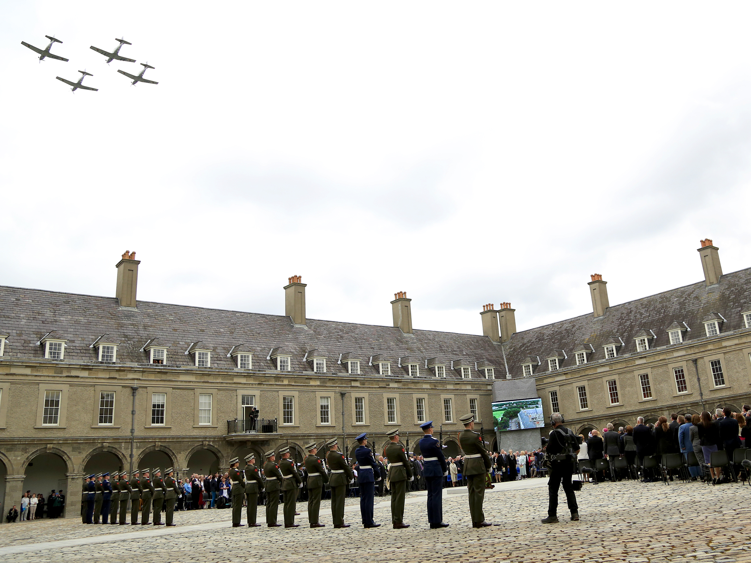 National Day of Commemoration 2014